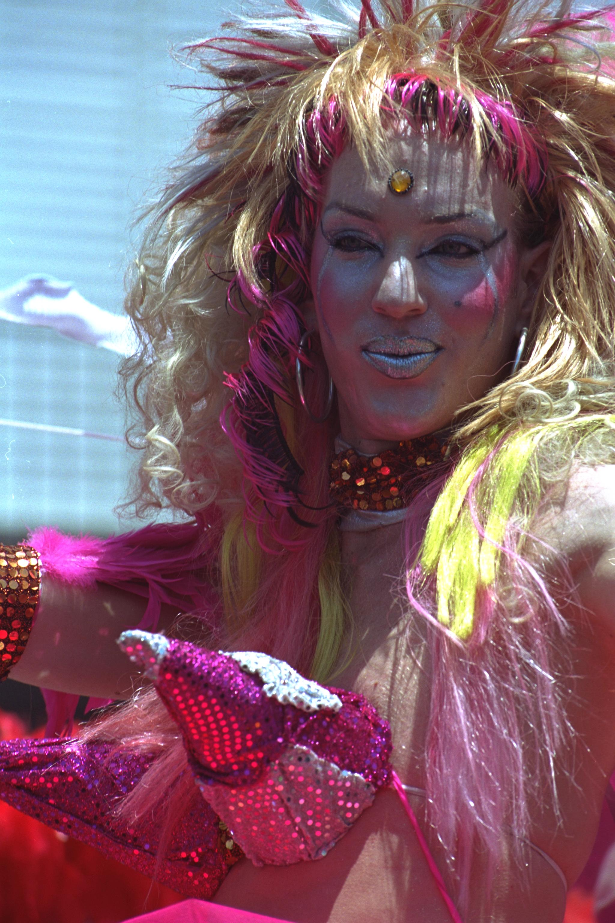 A Drag Queen in the pride parade of the israeli gay community, in Tel Aviv (22/06/2001). דראג קווין במצעד הגאווה בתל אביב Photo: Moshe Milner (1946–) Alternative names Miylner, Moše; Milner, Mosheh; Moshé Milner; Milner, M.; Mîlner, Moše; Miylner, MošehDescriptionIsraeli photographerצלם ישראליDate of birth 1946 Location of birth Germany Authority control : Q28750411 VIAF: 100999744 ISNI: 0000 0001 0804 0507 LCCN: n82072104 GND: 115699732 BNF: 15548788n WorldCat creator QS:P170,Q28750411 .